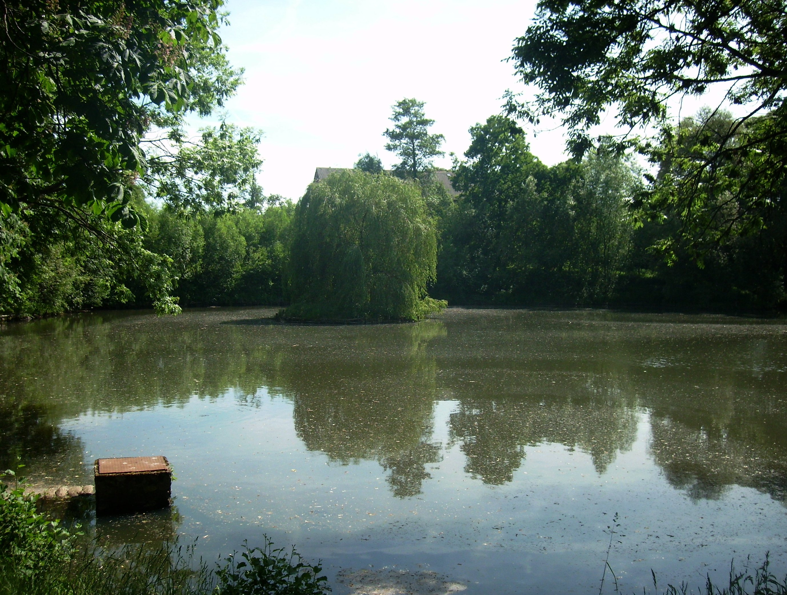 Pond in Arnsdorf (Striegistal, Mittelsachsen district, Saxony)